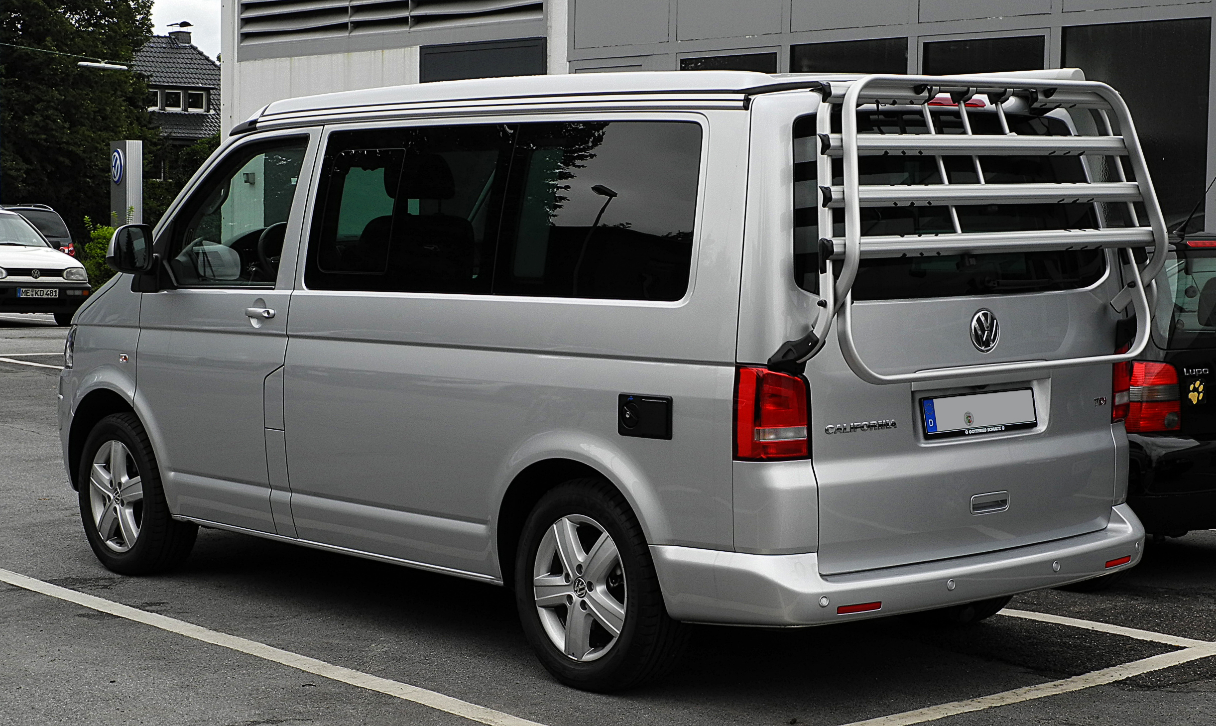 VW California Europe 2.0 TDI (T5, Facelift)